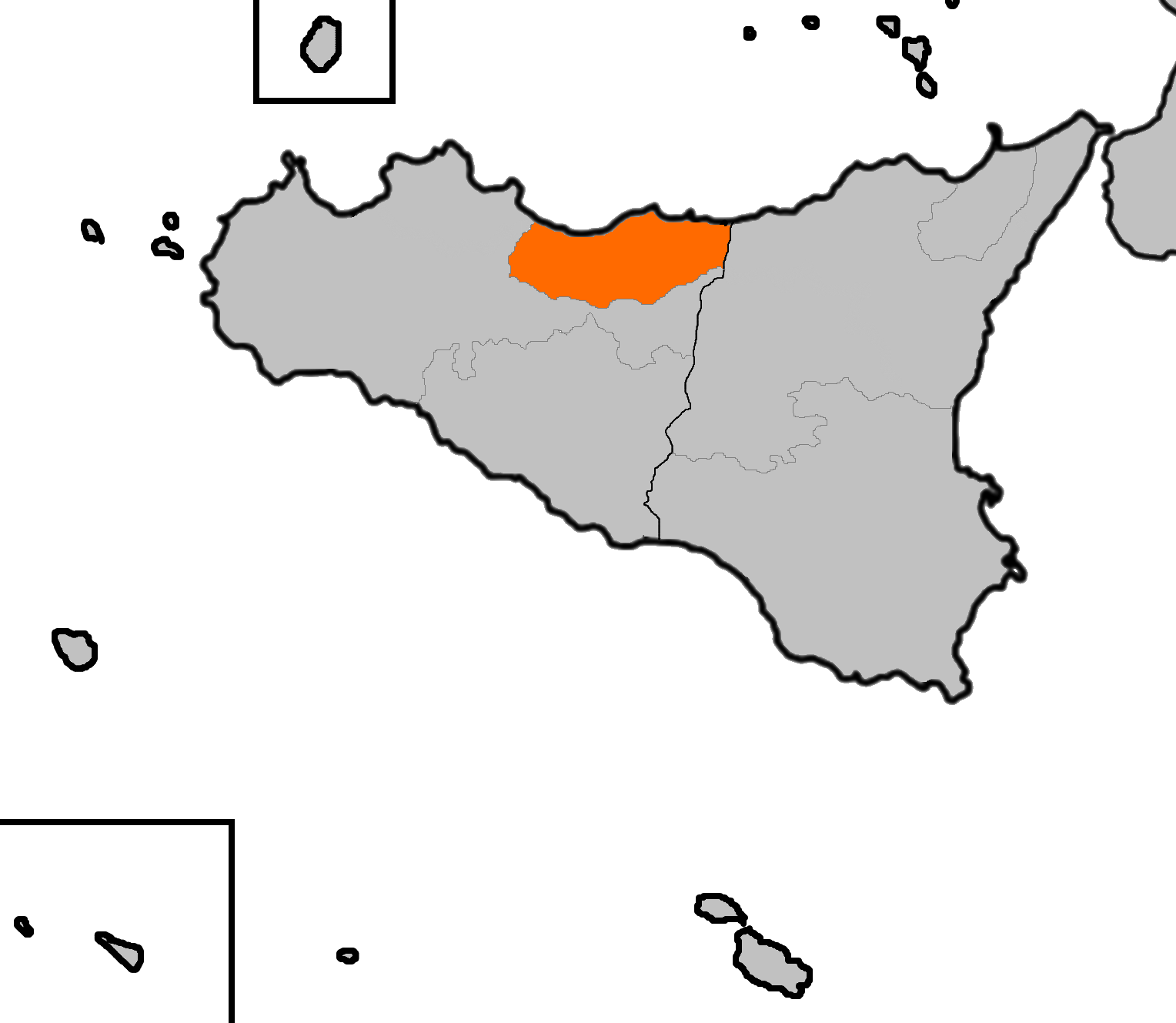 Localisation map of the Contea di Geraci between 1258 to 1285.